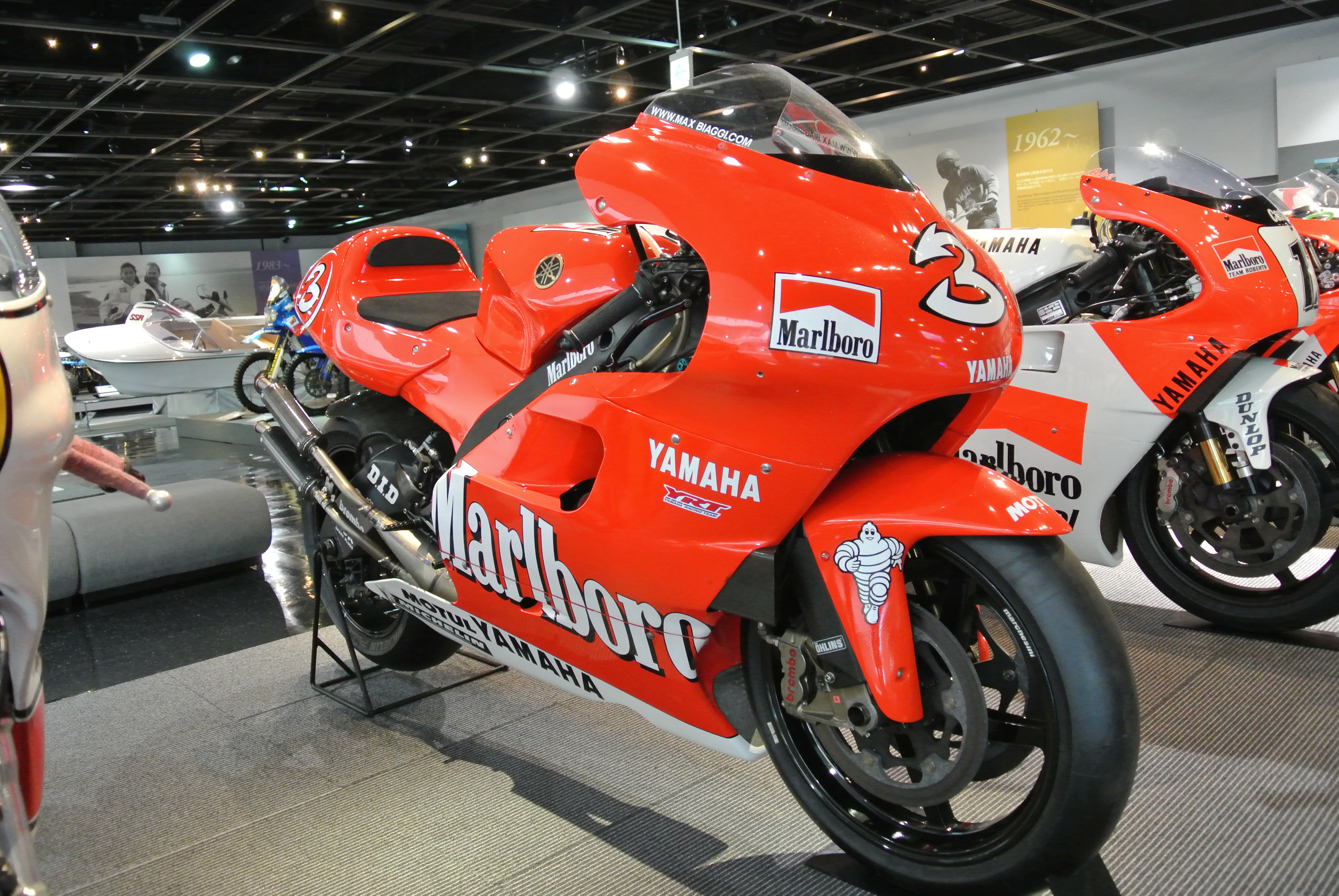 2001 Yamaha YZR500 (OWL6) in the Yamaha Communication Plaza.